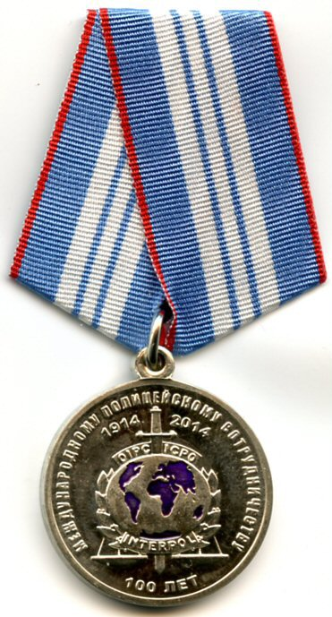 Jubilee medal “100 years of international police cooperation”. Award of the MOI of Russia